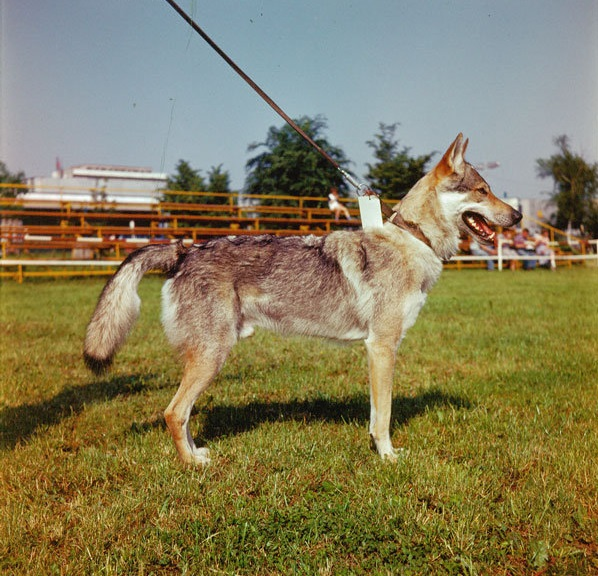 The prototype of the breed